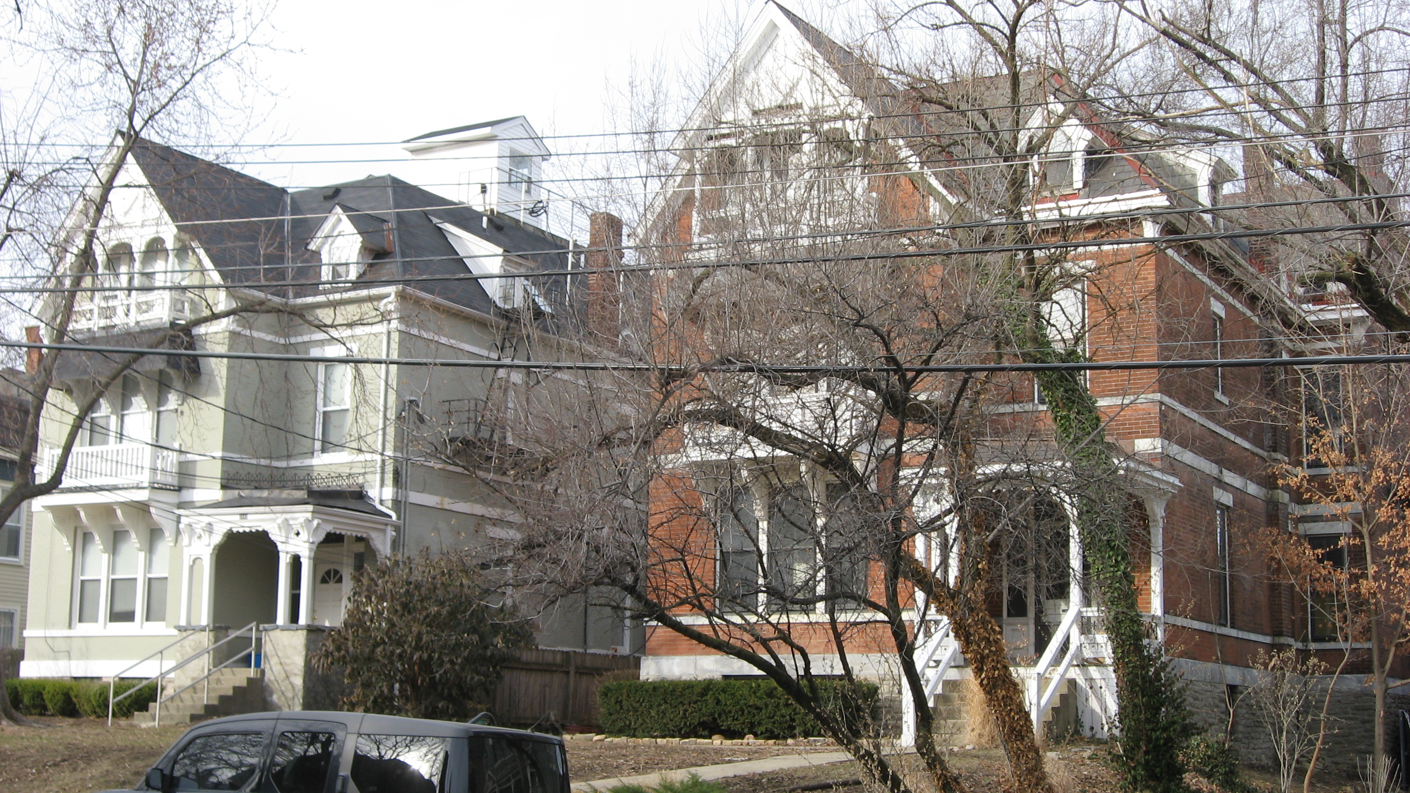 Houses on the western side of the 2100 block of Sinton Avenue on the southern edge of the Walnut Hills neighborhood of Cincinnati, Ohio, United States. This block is part of the Gilbert-Sinton Historic District, a historic district that is listed on the National Register of Historic Places.